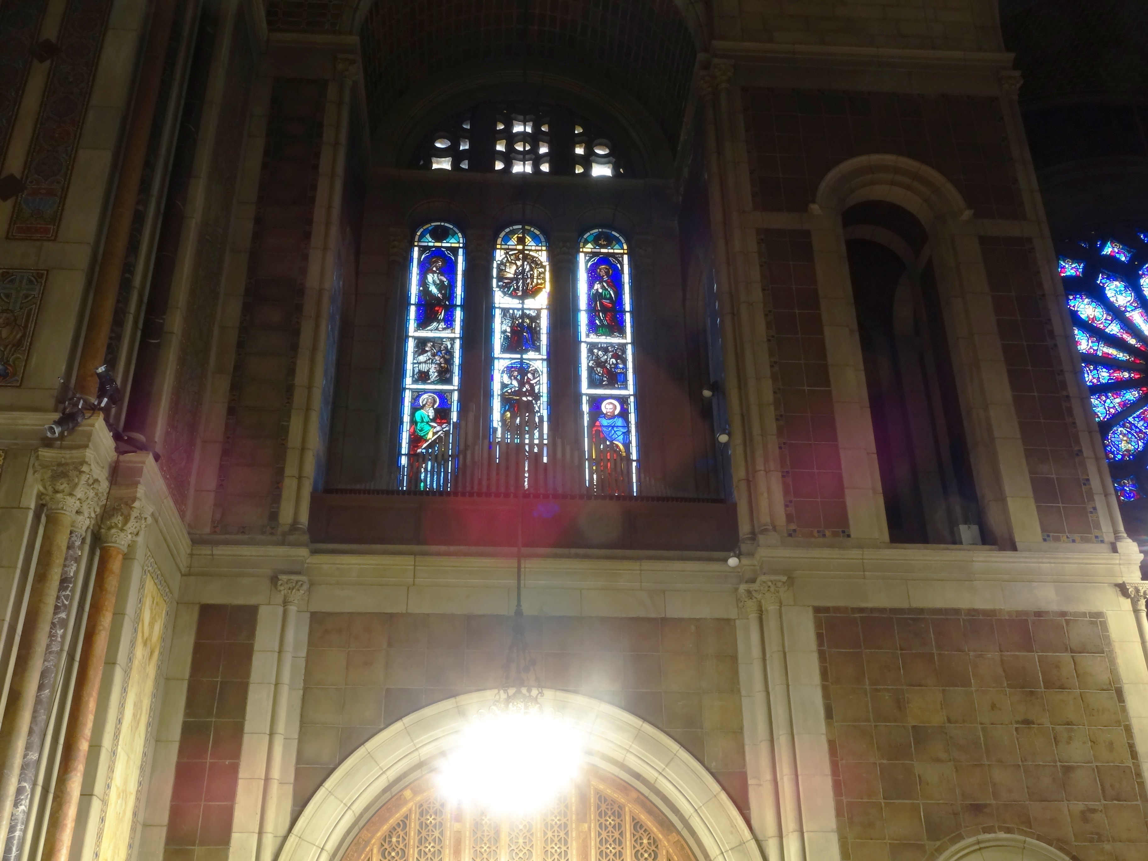 Southern Chancel Organ at St. Bartholomew's (NYC Park Avenue) by Aeolian-Skinner